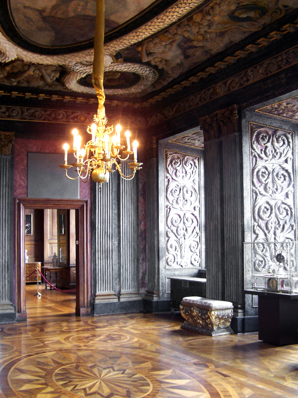 Gotha, Friedenstein Castle, audiencehall